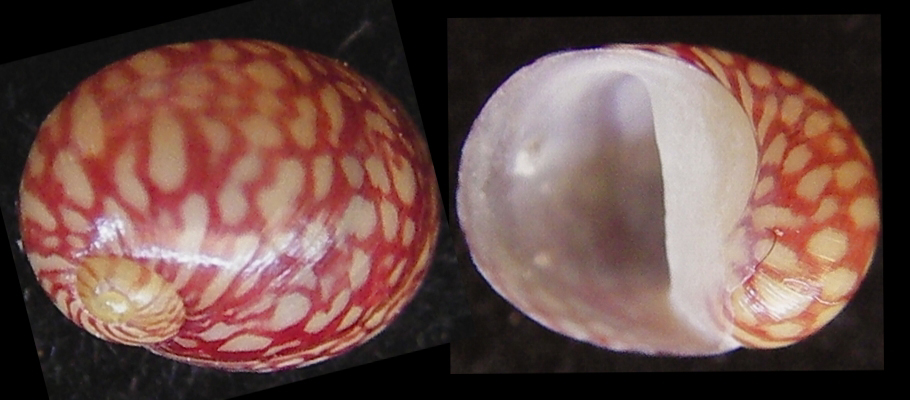 Photo of a shell of Theodoxus fluviatilis. Locality: Greece: southern Pelopónisos, Krokees. Date: June 2008.